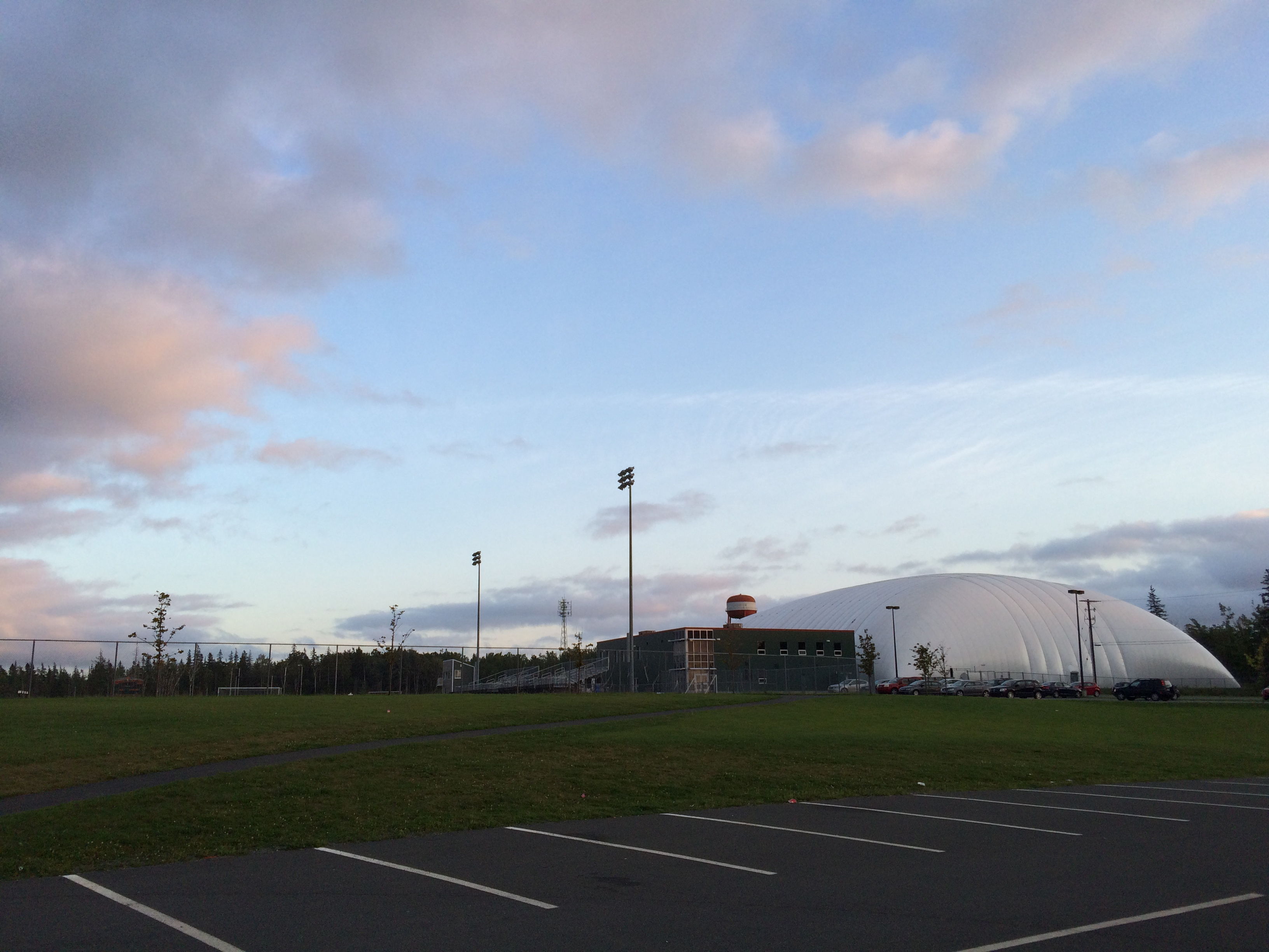 A gym surrounded by an indoor & outdoor track & soccer field.